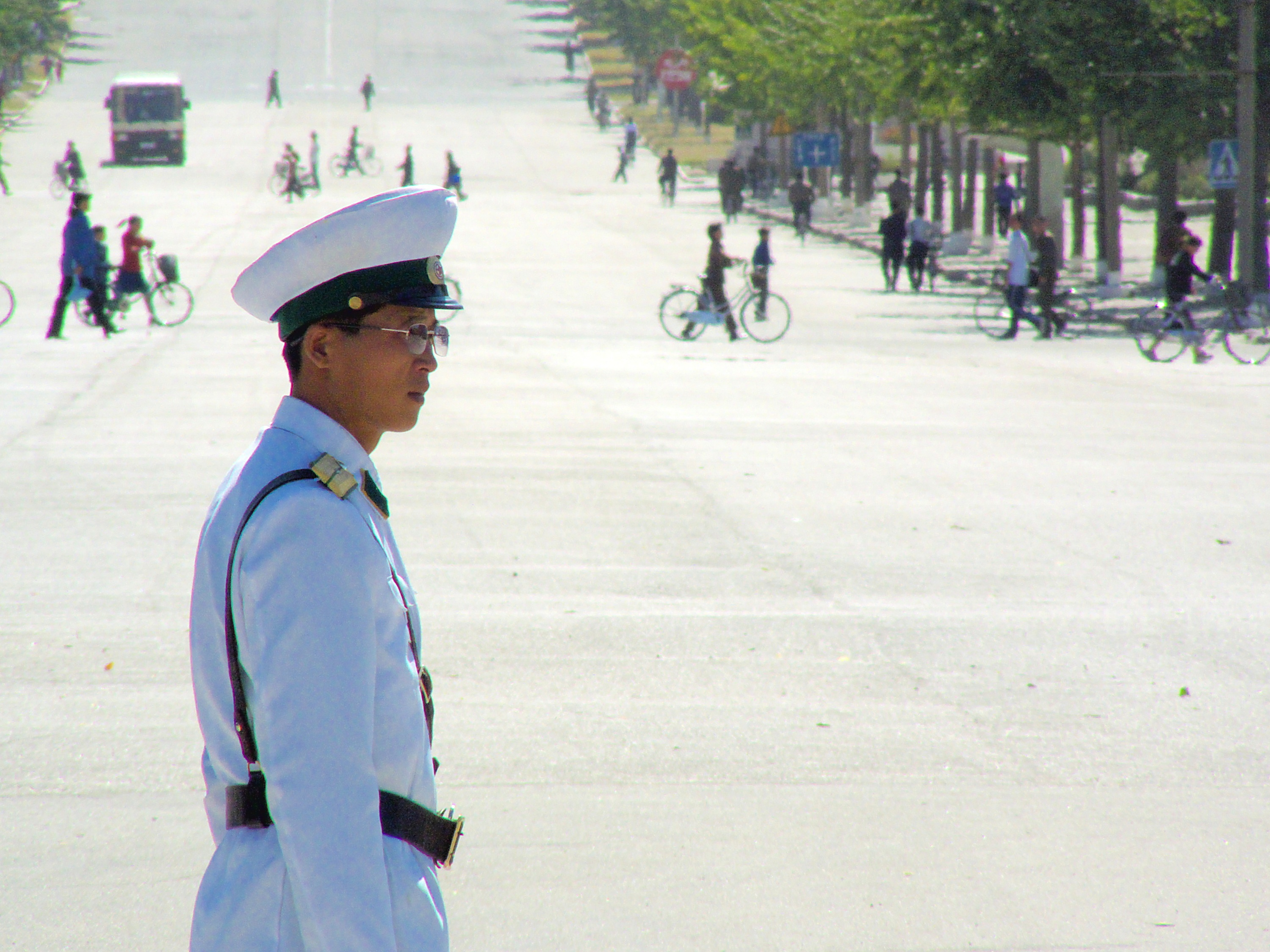 Traffic controllers like the one pictured are a common sight in the major cities. Due to the fuel shortage in the country, it is actually easier to have someone to direct the traffic all day than it is to power traffic lights. Our local guide claims the choice of traffic controllers over traffic lights is to reduce pollution. Right.